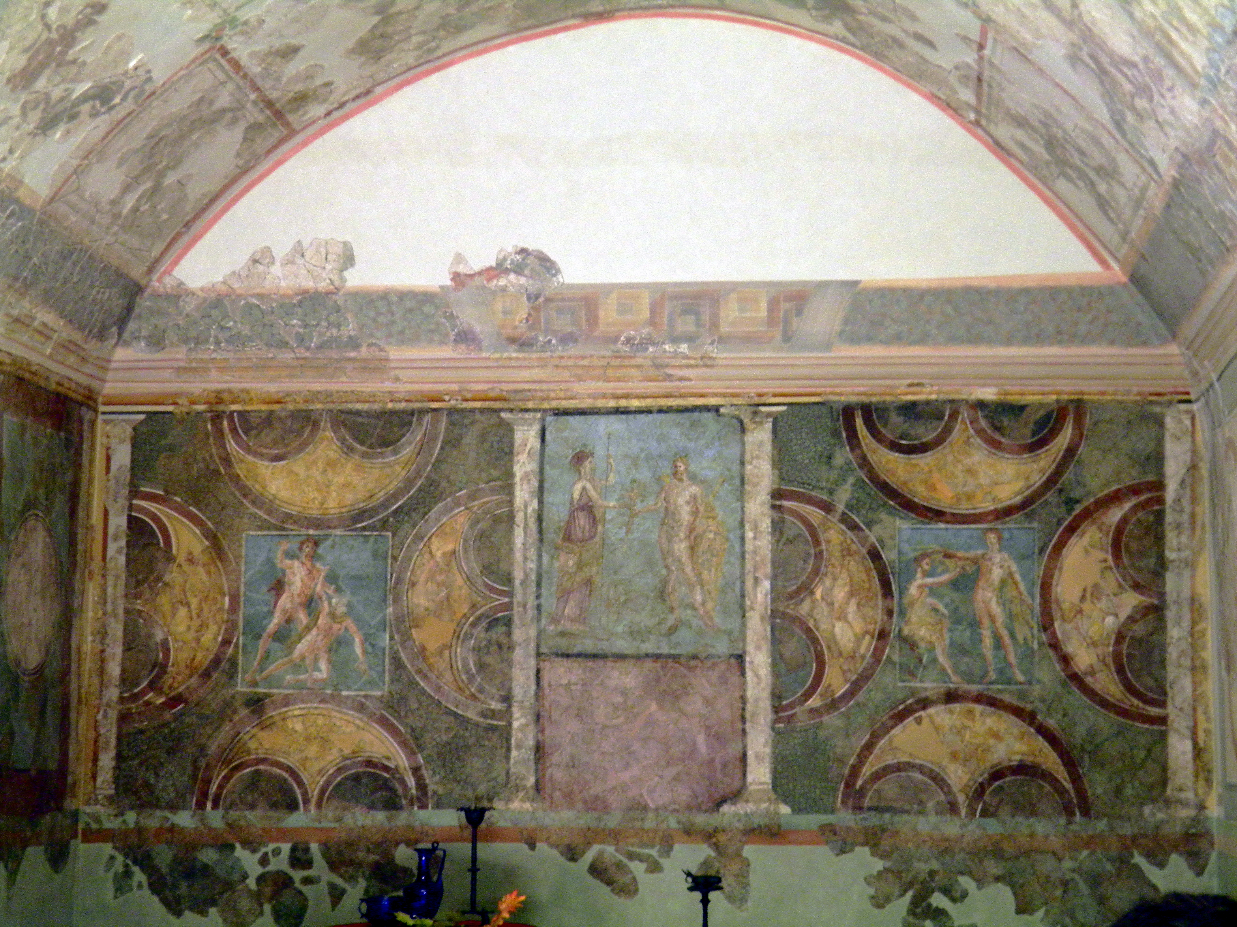 A richly decorated triclinium (officer’s dining room), the most complete Roman wall-painting of all the limes, found in the Limes fort at Echzell, Saalburg Roman Fort, Limes Germanicus, Germania (Germany)